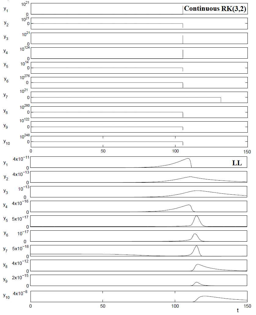 luego se agregará caption de imagen